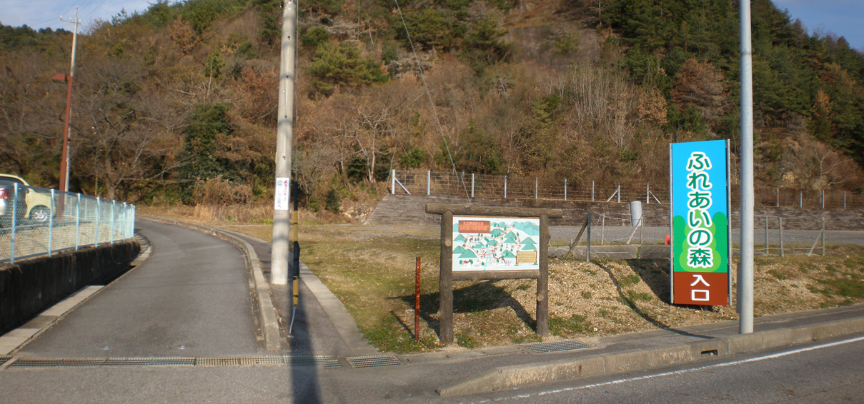 The entrance to Hureai forest in Komaki, Aichi Pref